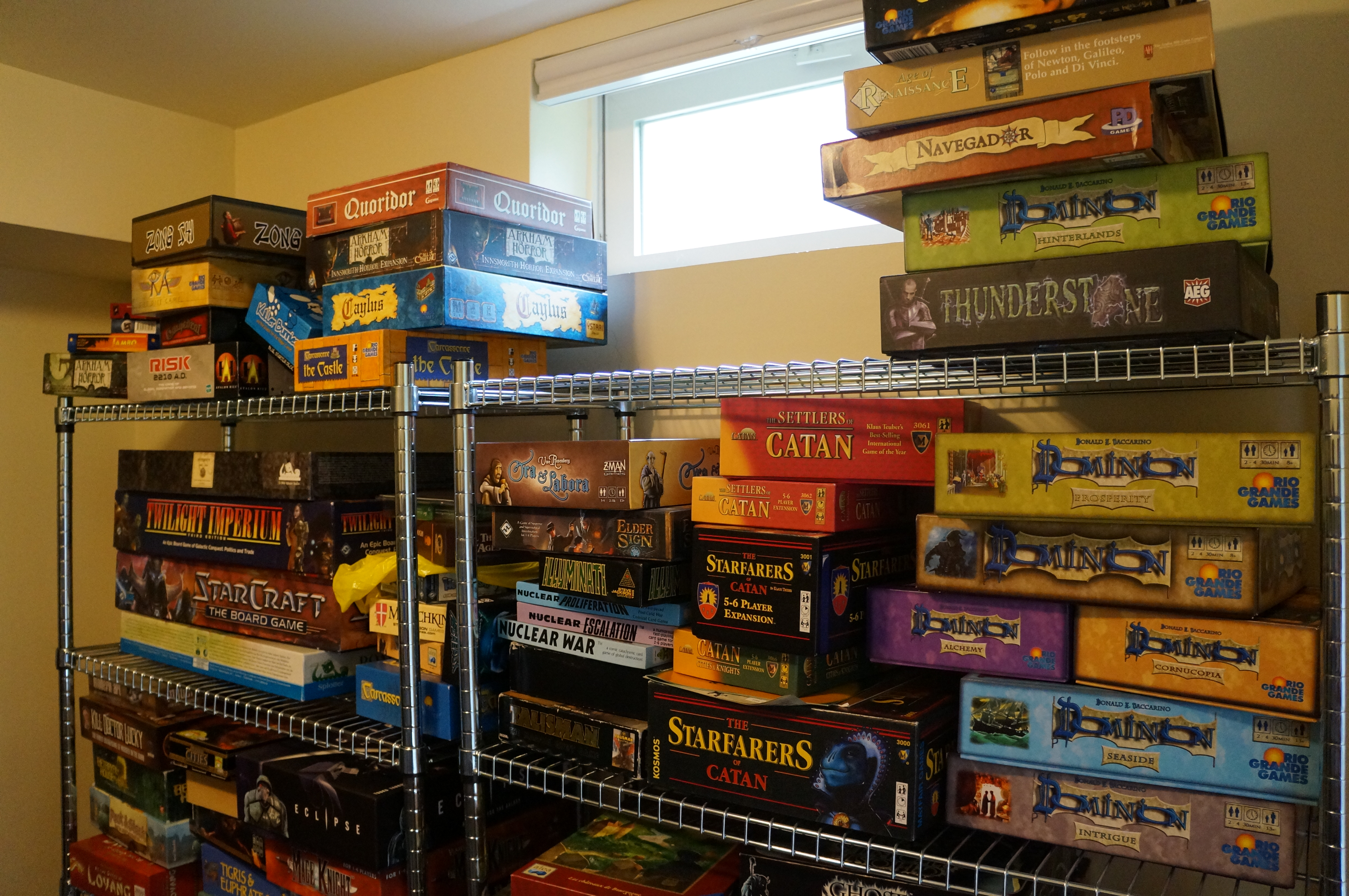 European Board Games